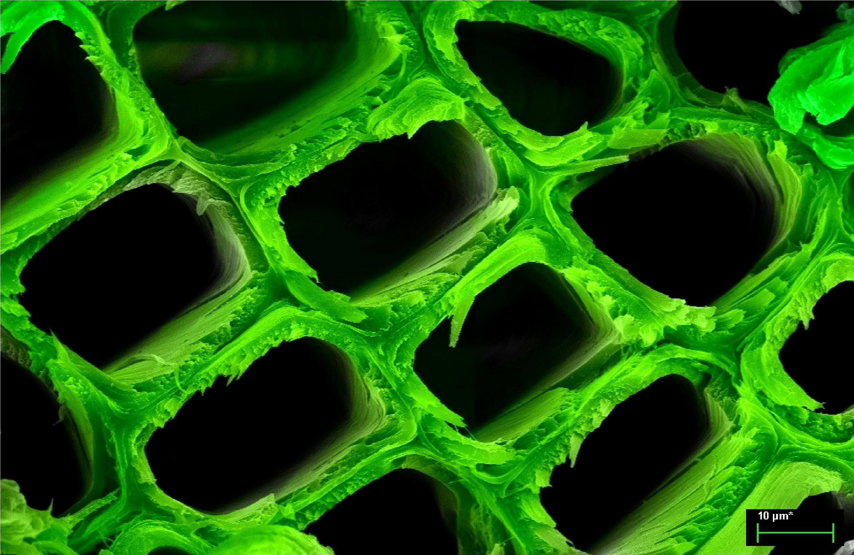 The picture shows the structure of spruce tree cells. Spruce belongs to the genus of coniferous evergreen trees of the pine family. There are about 40 species. It is one of the main forest-forming species. From it are obtained tar, turpentine, rosin, tar. One cubic meter of spruce wood can be turned into six hundred suits, or 4000 pairs of viscose socks or into sleepers, boxes. Often, spruce is also called a musical tree. Its white, slightly shiny wood is indispensable in the manufacture of musical instruments.